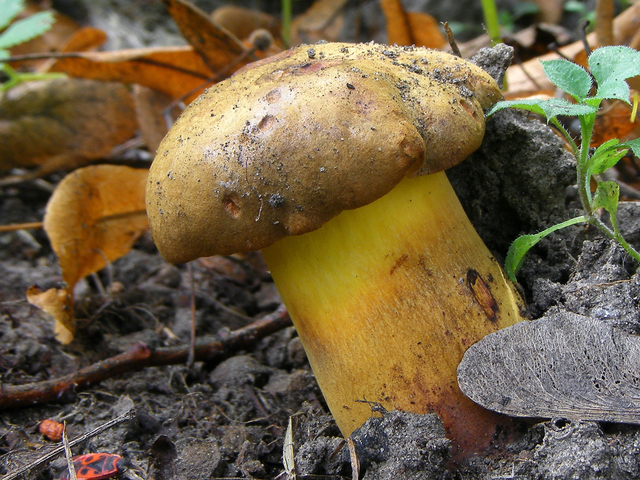 Boletus pulverulentus - young specimen.